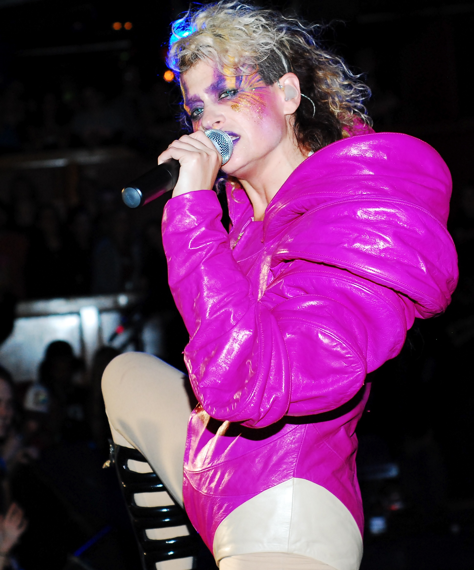 Peaches performing in Brookline, Massachusetts